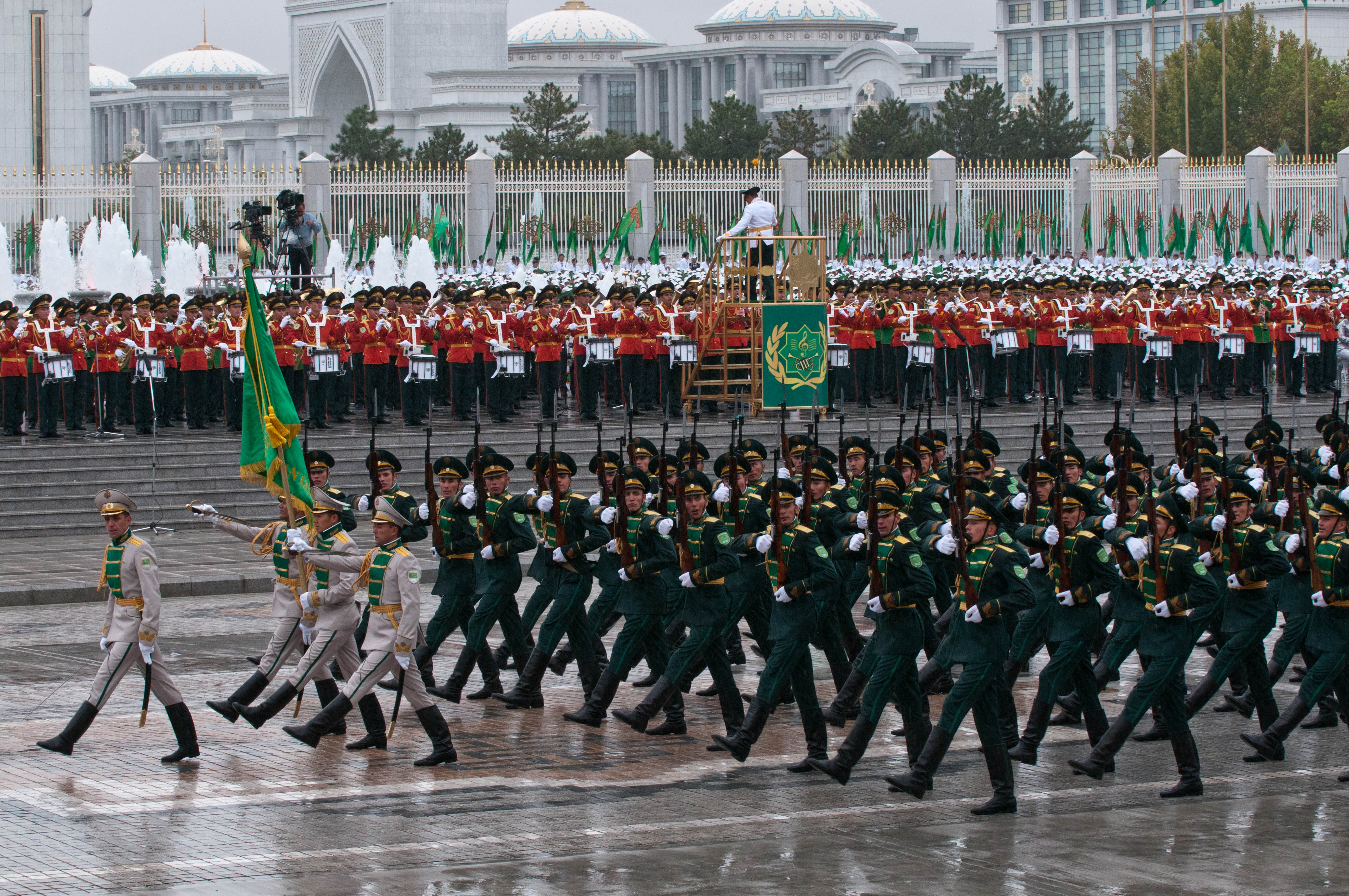 Celebrating the 20th year of independence in Turkmenistan